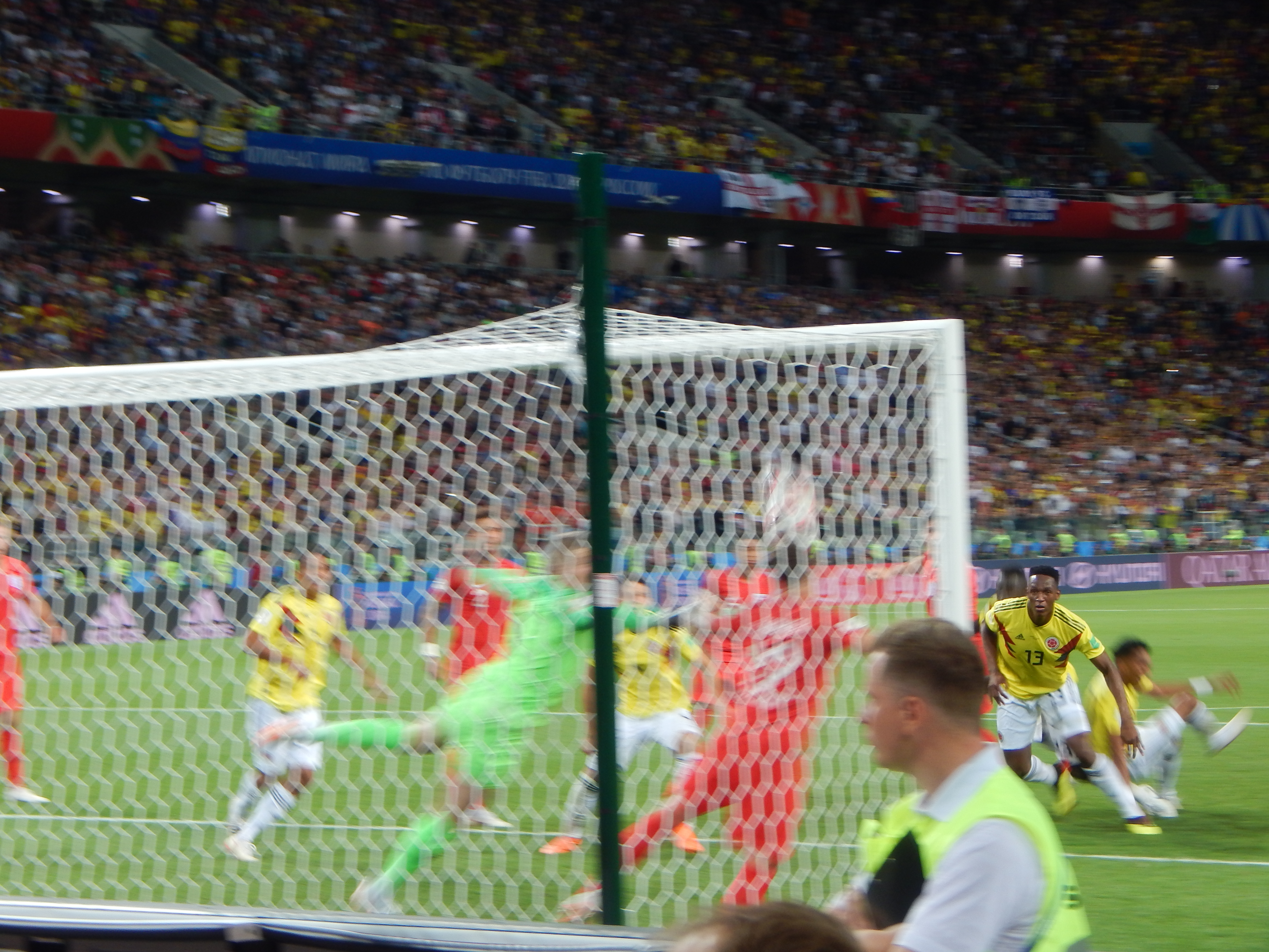 FIFA World Cup 2018, Round of 16, Colombia vs. England. Yerry Mina scores his goal